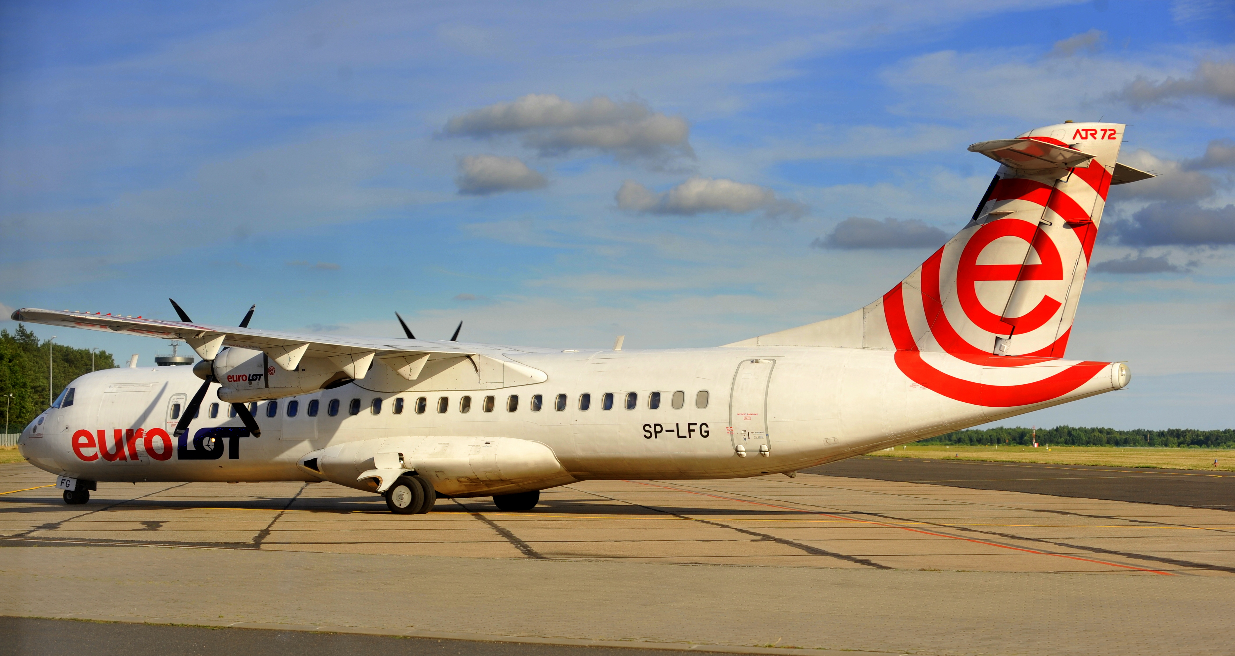 EuroLOT S.A. ATR 72 (SP-LFG) after landing at Szczecin-Goleniów Airport im. NSZZ "Solidarność", Poland.